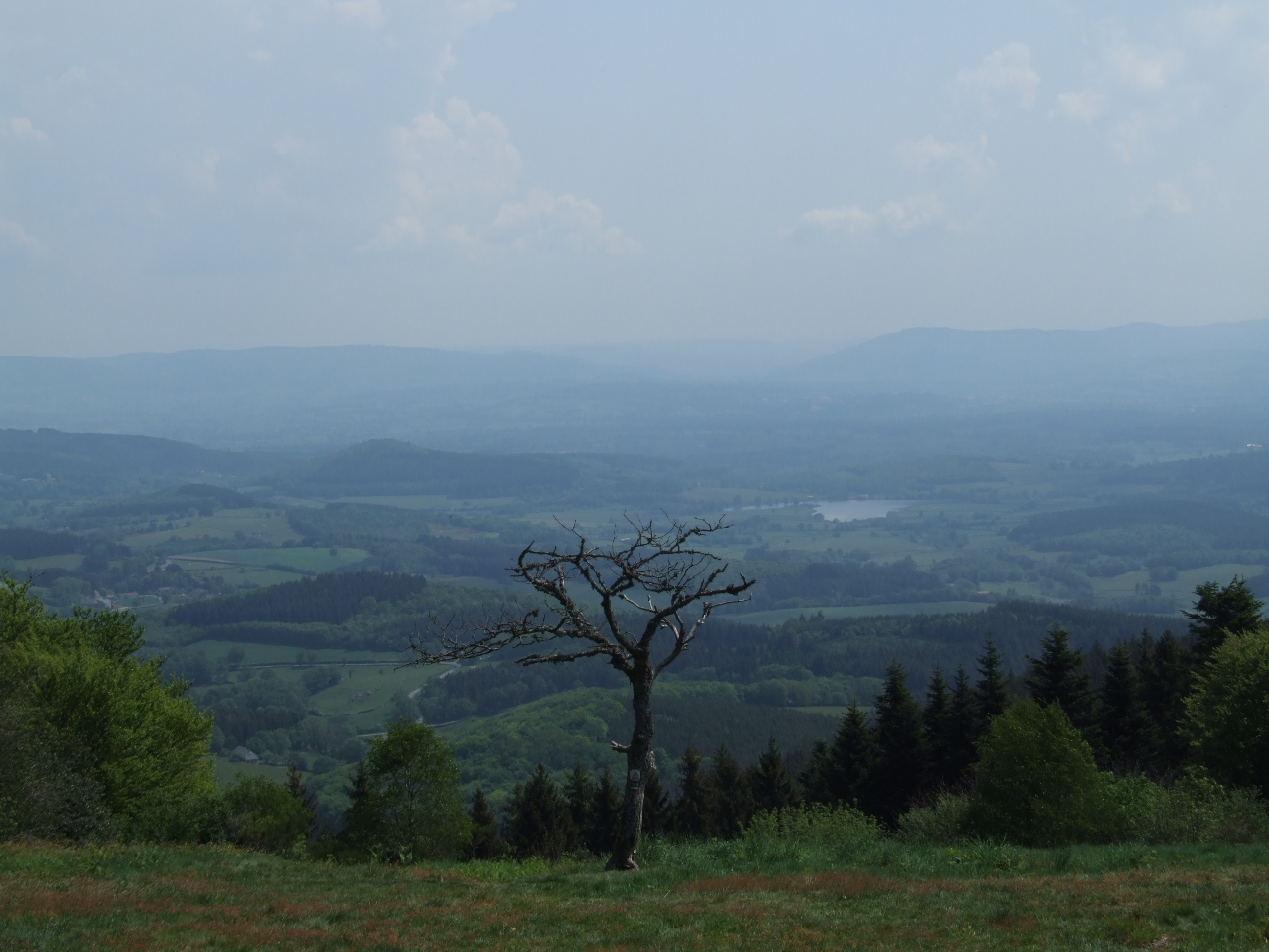 Bibracte, Burgundy, FRANCE